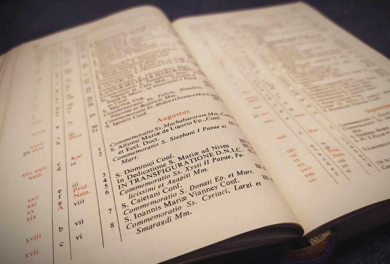 General Roman Calendar 1960 from Breviarium Romanum 1961